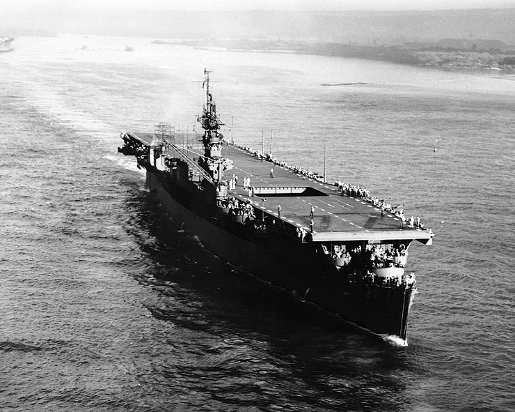 The U.S. Navy light aircraft carrier USS Belleau Wood (CVL-24) underway on 22 December 1943.